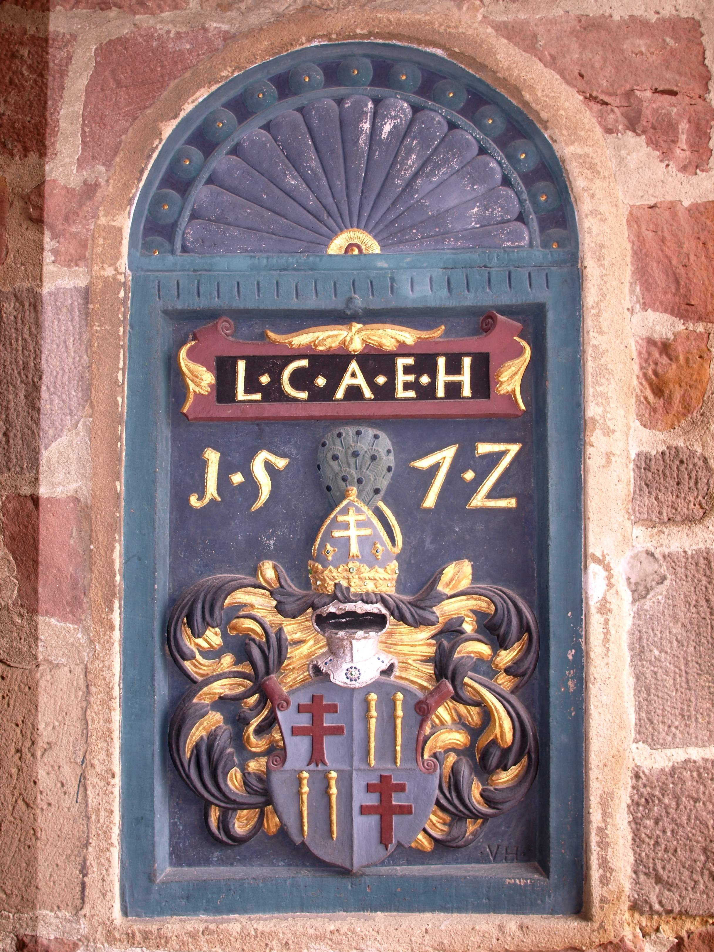 Coats of arms of abbot Ludwig V. of Hersfeld, attached in the doorway to the quadrangle of castle Eichhof.